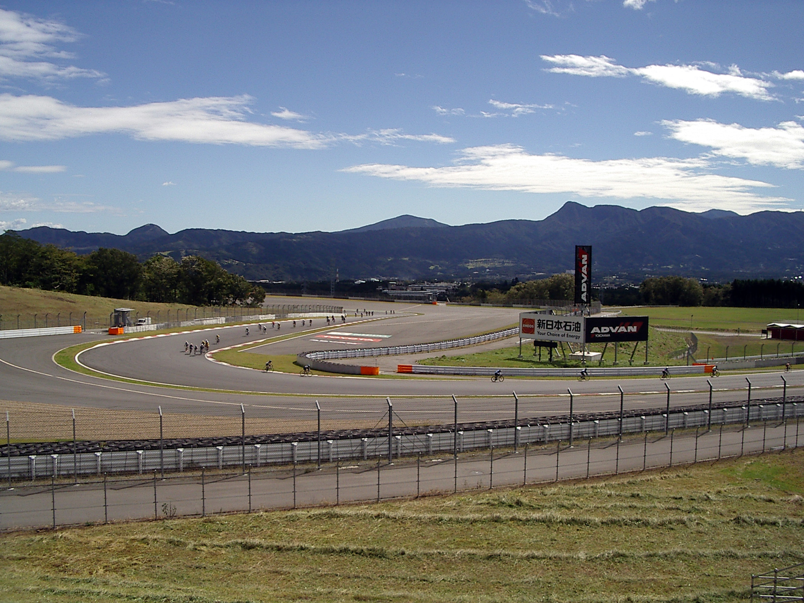 Fuji Speedway Hairpin corner The picture was taken by myself at "2006 cycling festival in Oyama" in October 7, 2006 富士スピードウェイのヘアピンコーナー。2006年10月7日に行なわれた「2006 サイクリングフェスティバル イン 小山」で撮影。